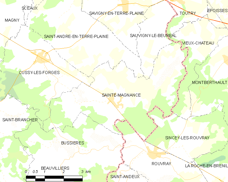 Map of French municipality Sainte-Magnance